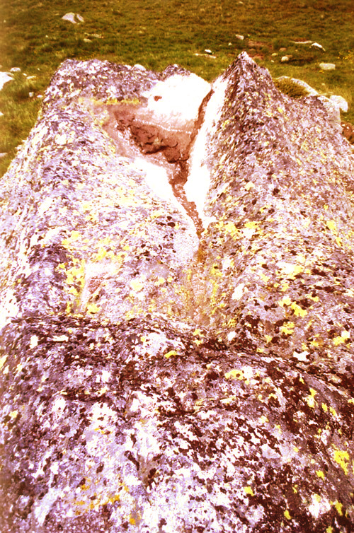 Popovo lake Pirin BG